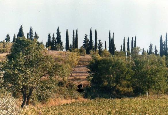 View of hills in Yeşilyurt